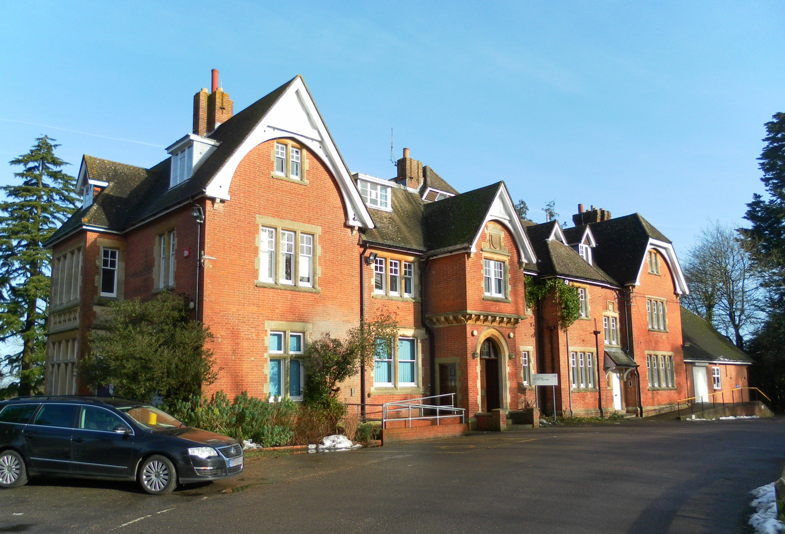 Goffs Park House, Horsham Road, Southgate, Borough of Crawley, West Sussex, England. One of the borough's locally listed buildings. Used by Crawley Museum and the Probation Service. See websites and